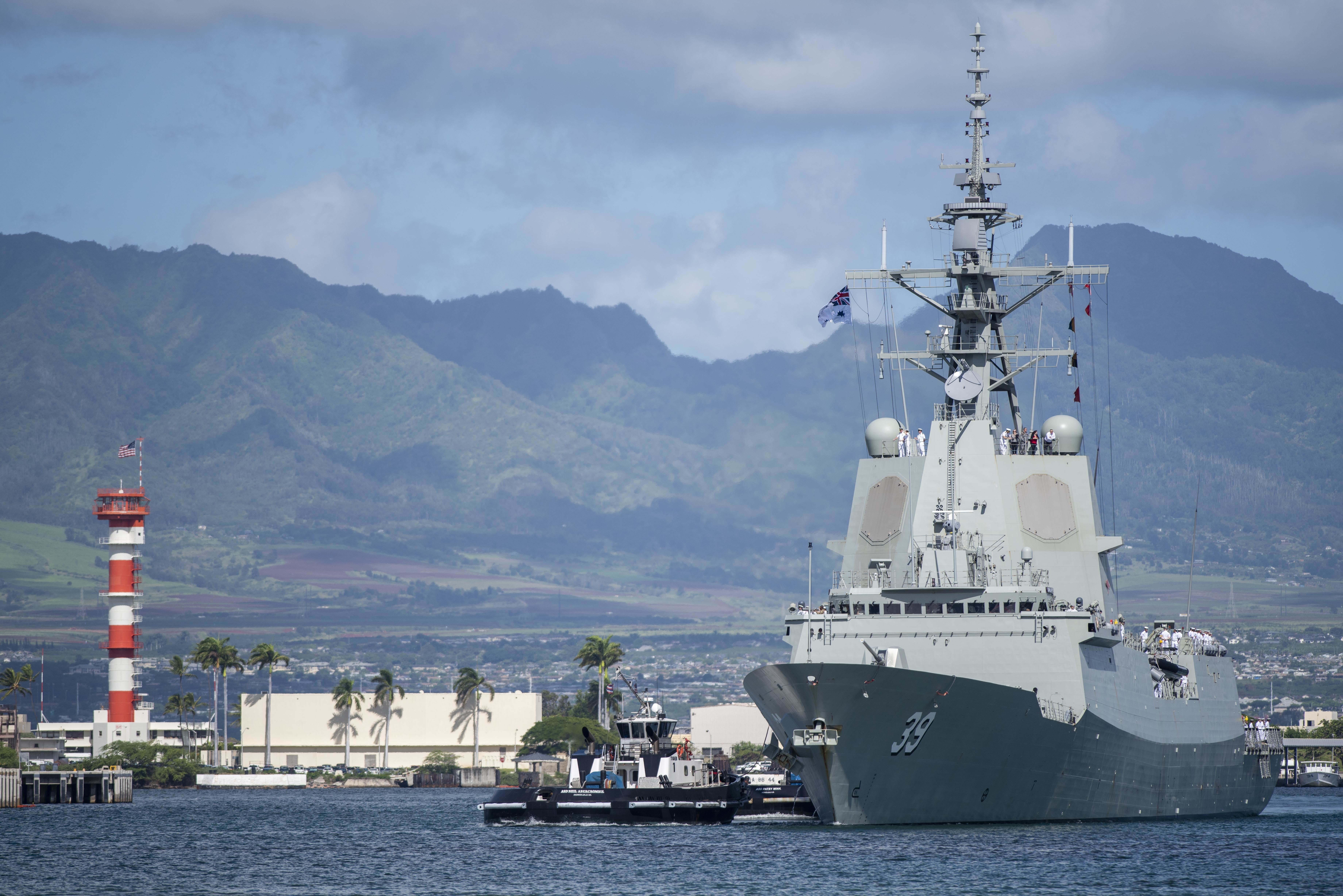 180918-N-SF508-0031 PEARL HARBOR (Sept. 18, 2018) The Royal Australian Navy Hobart-class air warfare destroyer HMAS Hobart (DDG 39) arrives at Joint Base Pearl Harbor-Hickam as part of the 100 Years of Mateship celebration between the United States and Australia. 2018 marks the 100th anniversary of the first time U.S. and Australian troops fought side by side in an offensive action, at the Battle of Hamel on France’s Western Front during World War I. (U.S. Navy photo by Mass Communication Specialist 2nd Class Charles Oki/Released)